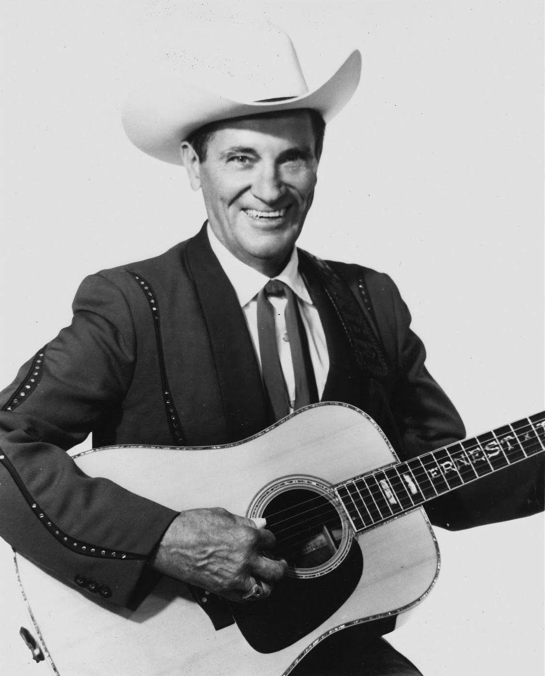 Publicity portrait of Ernest Tubb for the Grand Ole Opry